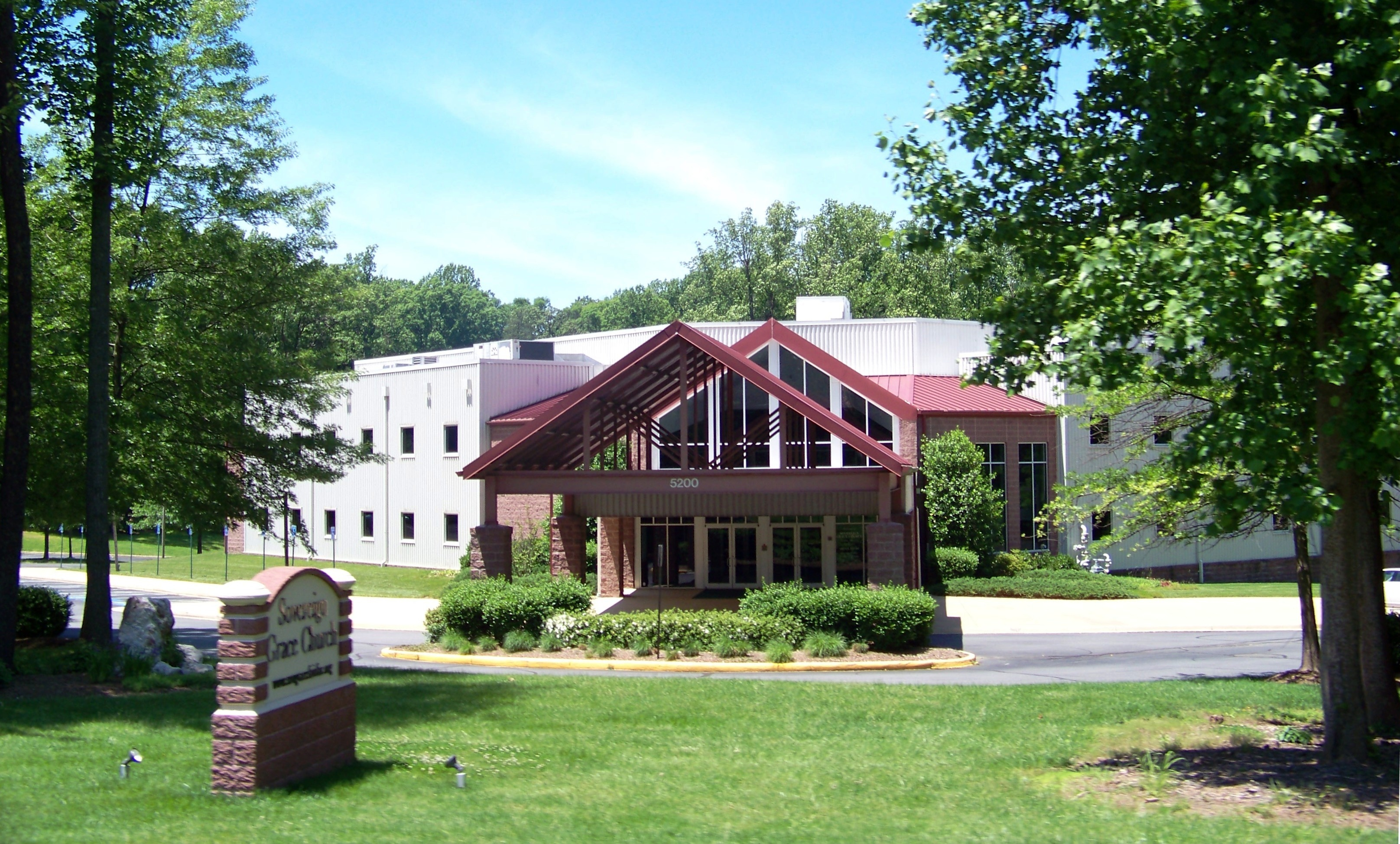 Sovereign Grace Church